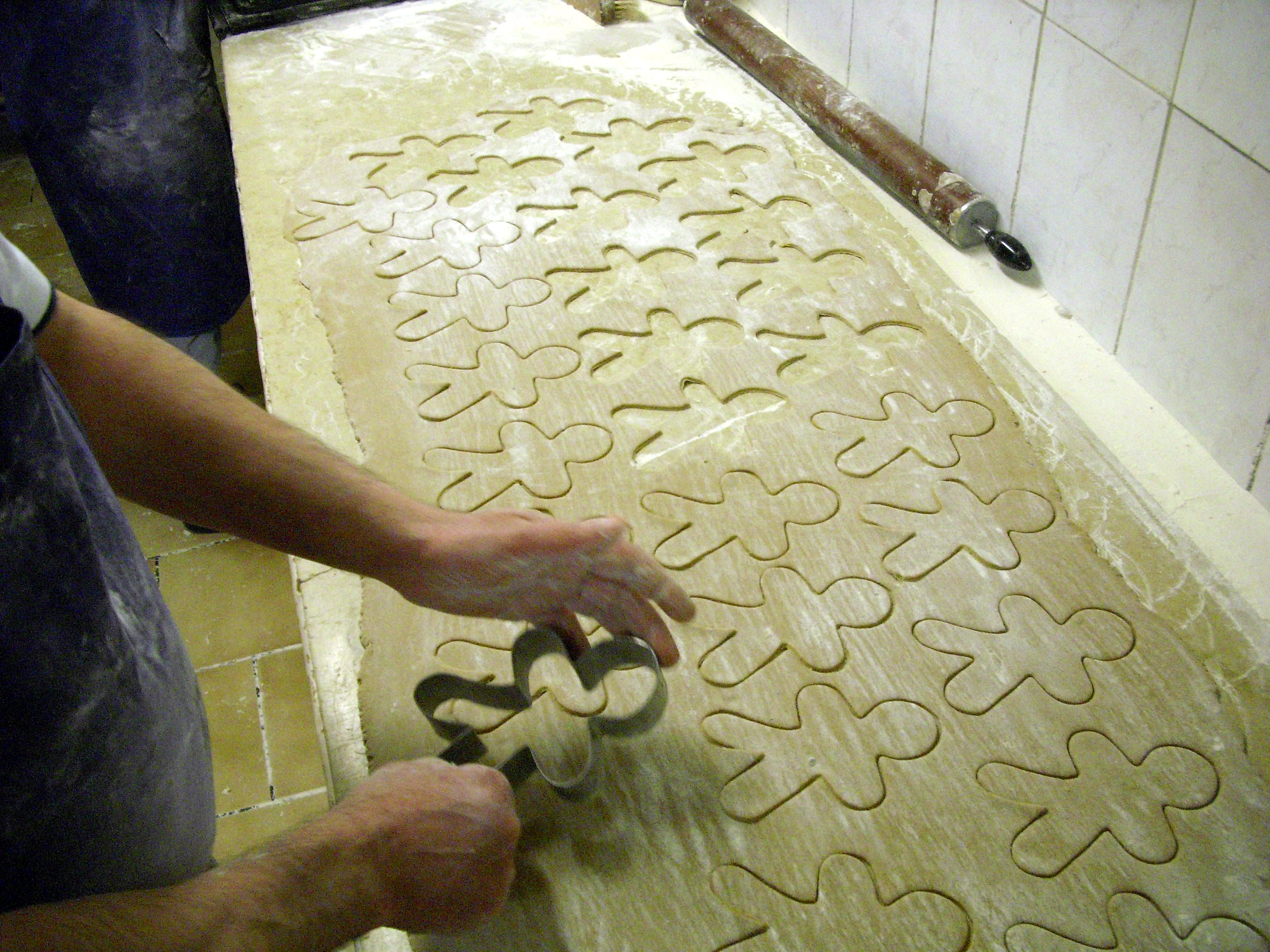 Cutting mold in form a man for alsatian spice breads or gingerbreads used in France at the gingerbread house Lips